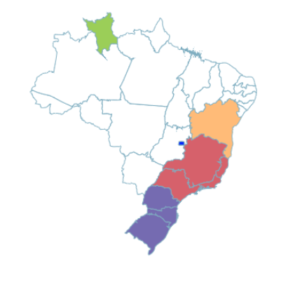 Geographic distribution of the Family Winteraceae in Brasil